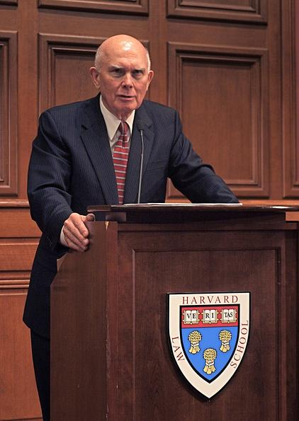 Dallin H. Oaks member of the Quorum of the Twelve Apostles of The Church of Jesus Christ of Latter-day Saints, former professor of law at the University of Chicago Law School, a former president of Brigham Young University, and a former justice of the Utah Supreme Court.